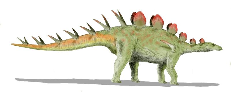 Chialingosaurus kuani, a Late Jurassic stegosaur from China, pencil drawing